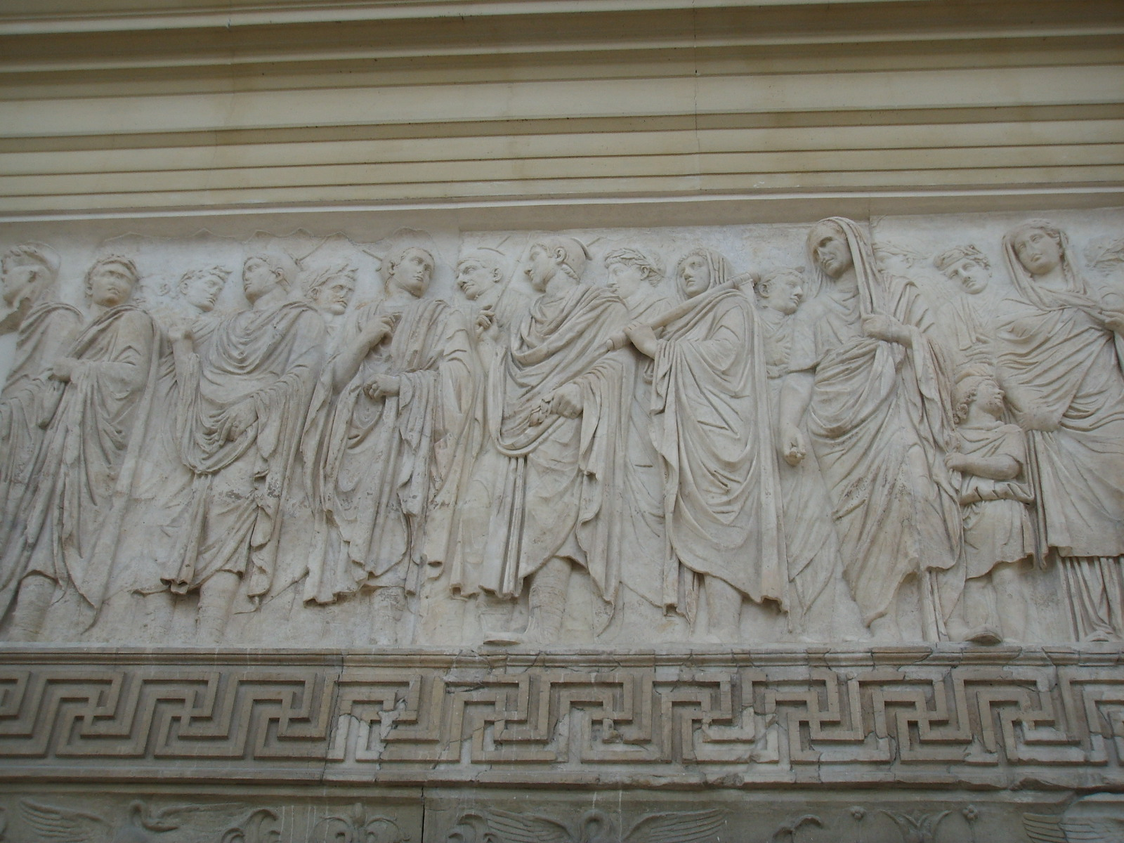 Ara Pacis, west side 2 in Rome, Italy